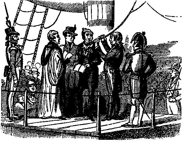 18th century illustration of Richard Parker (British sailor) about to be hanged for mutiny.